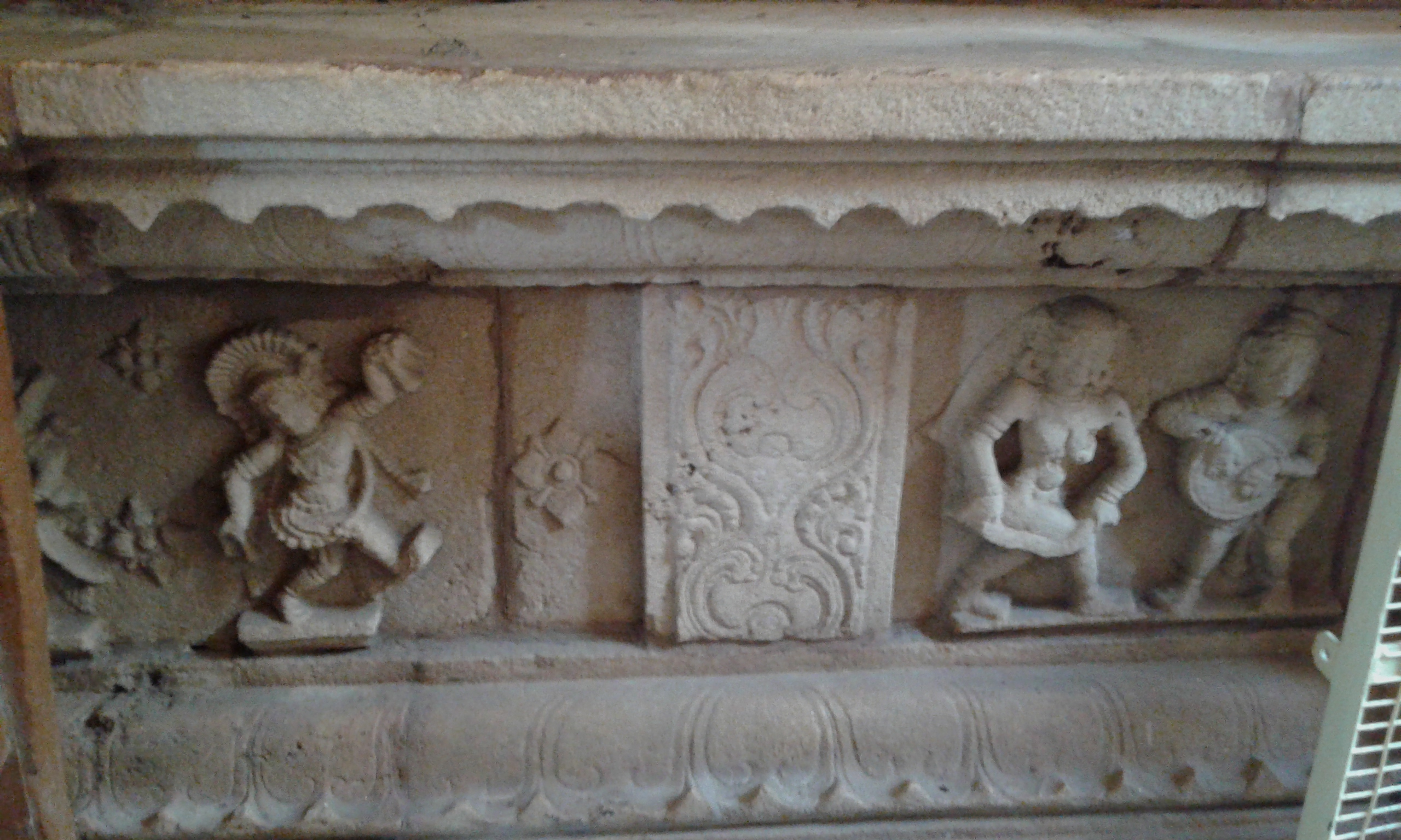 Thirukulandhai